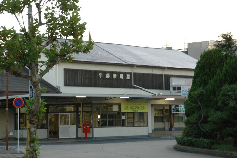 JR-WEST(JAPAN) Ube Line, Ube shinkawa Sta. photo by 2005.10.16